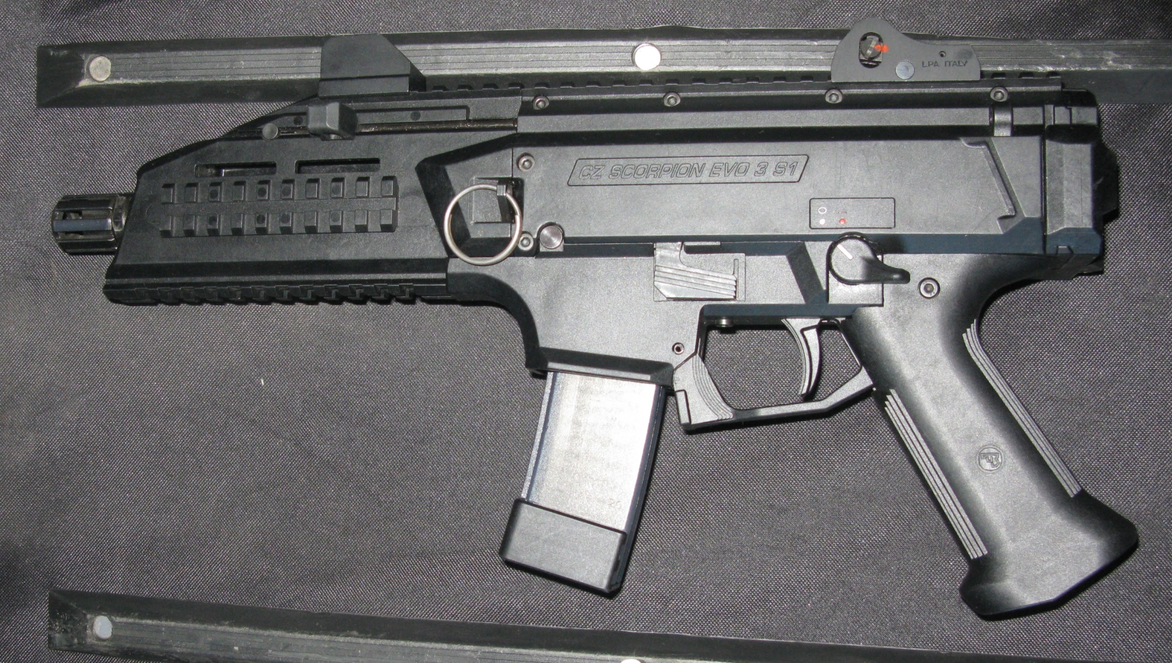 9 mm semi-auto CZ Scorpion EVO 3 S1 pistol-carbine, left view.